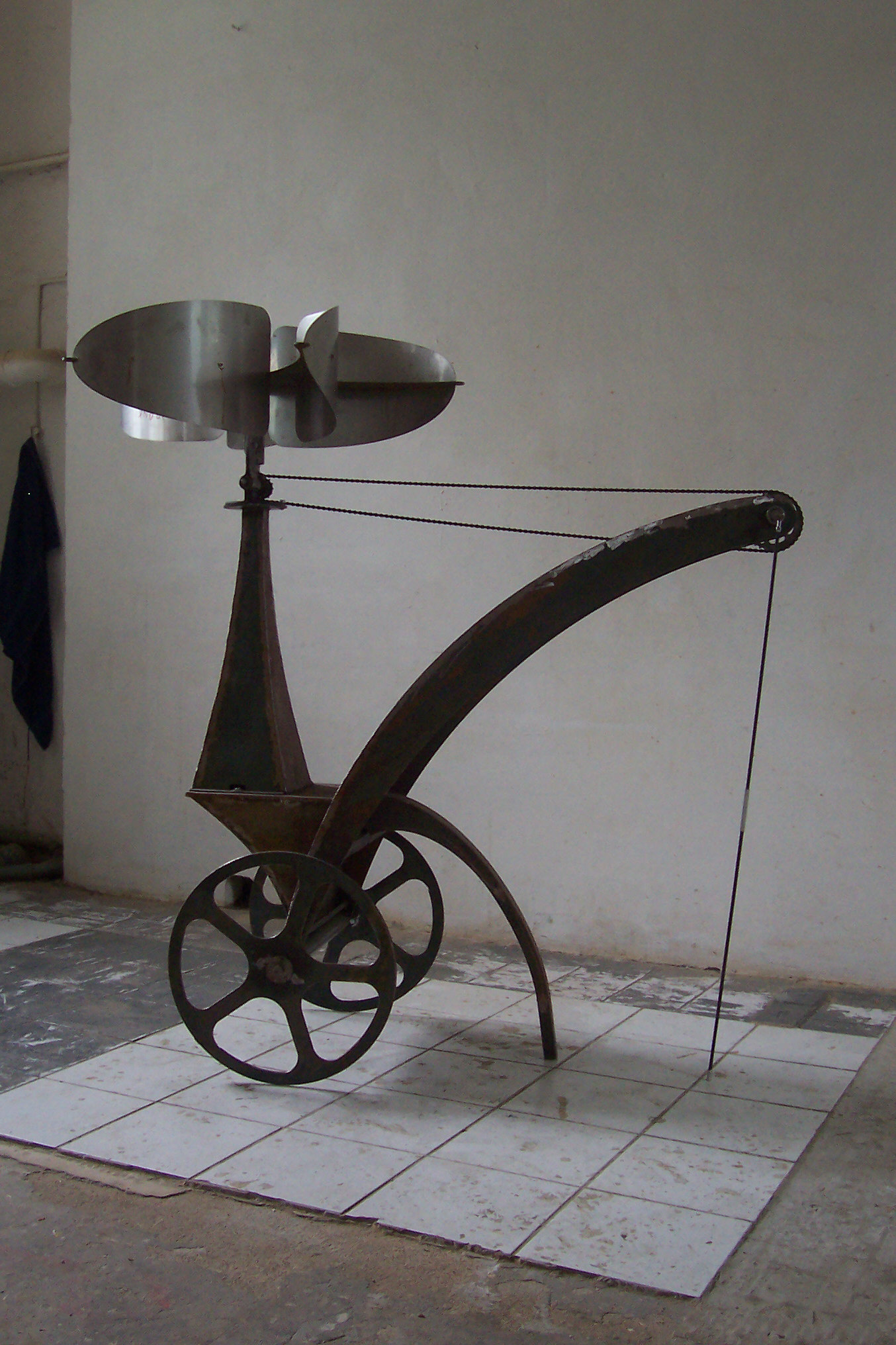 WindKutsch Wind Chariot The WindKutsche resembles a roman chariot. In the stead of a warrior, a tower with a rotor is standing on the axis. The rotation is transmitted by a chain to the head, where an excenter moves a free hanging stick up and down. With the help of this stick the chariot moves stilting against the wind. When the stick has no contact to the ground it is pushed by the wind a little backwards. Than the stick goes down and lifts the head. Now the hole sculpture is standing on the instable stick and two weels. In this way, the sculpture stumbles against the wind.